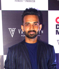 Ajinkya Rahane at the GQ Best Dressed Men 2016